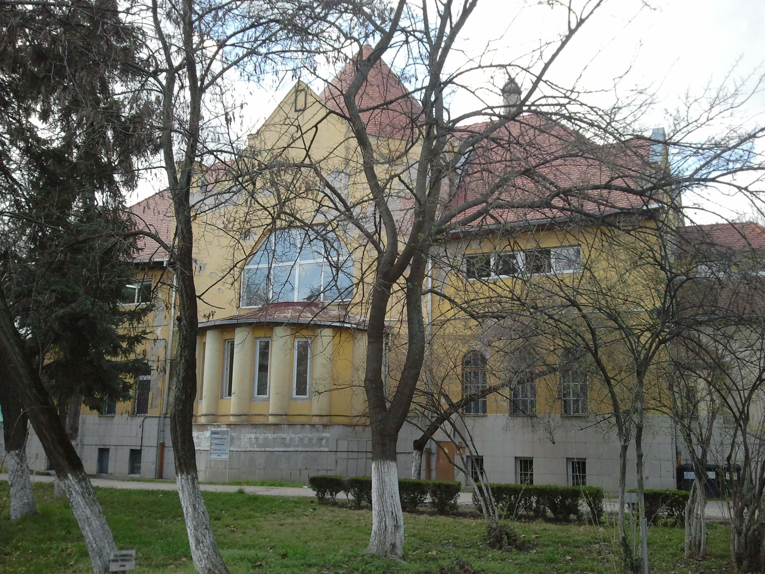 University of Oradea - Buliding M